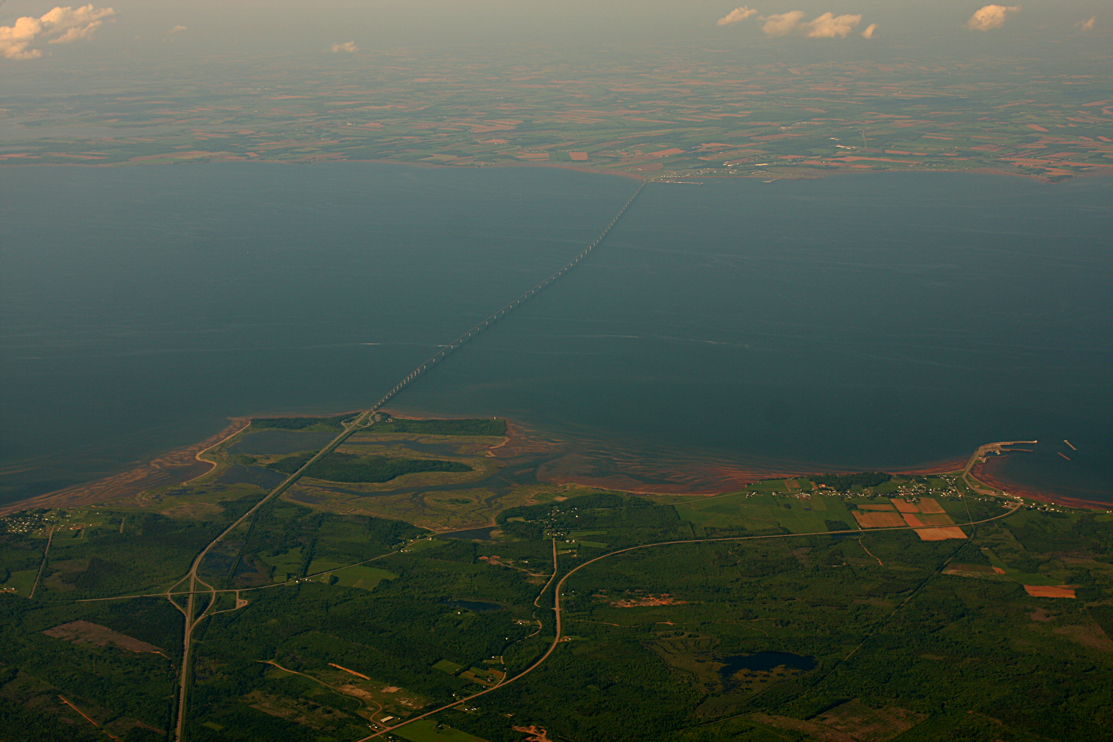 Aerial photography of the Confederation Bridge